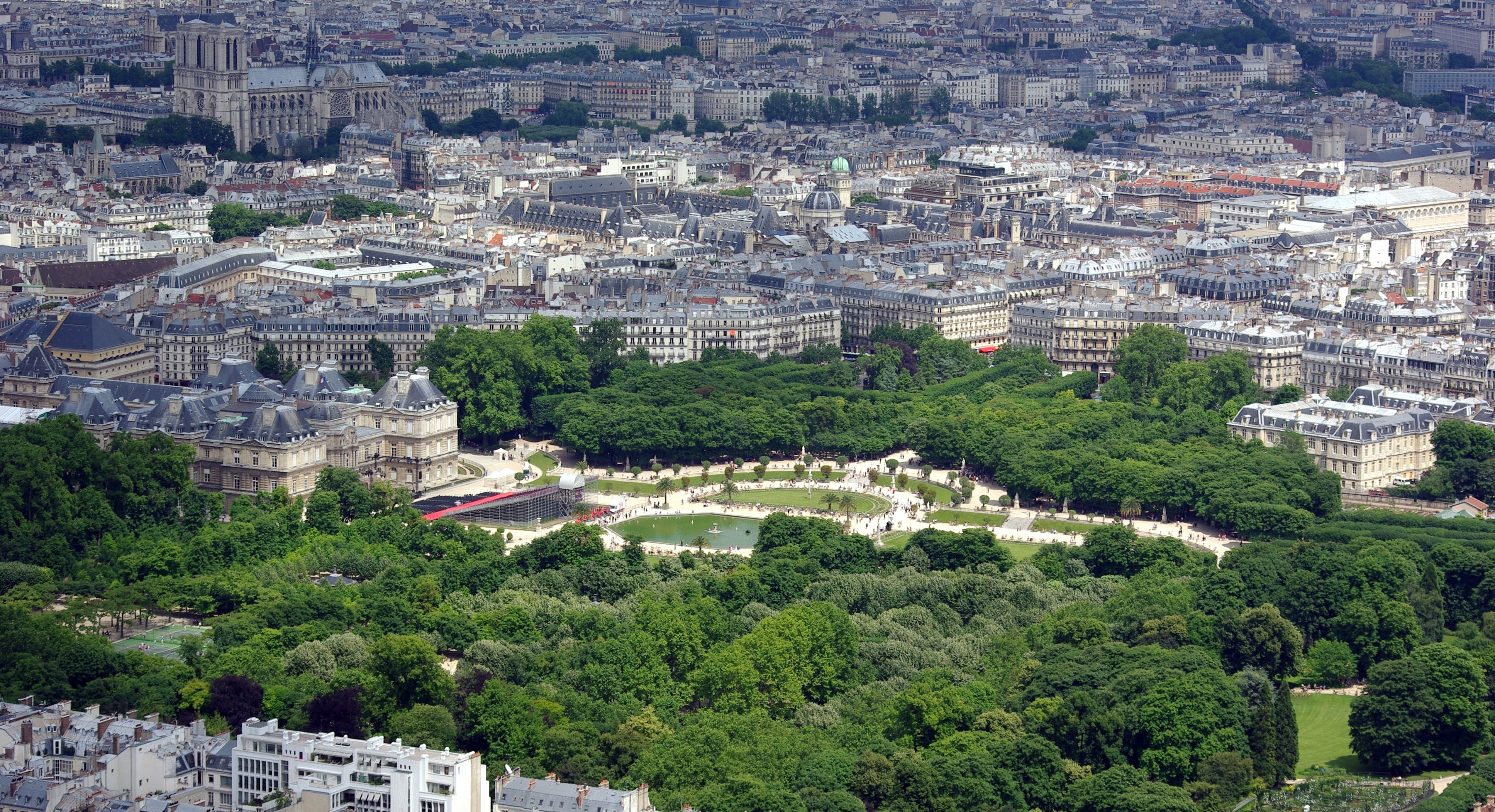 The Luxembourg gardens as seen from the Montparnassse tower, Paris